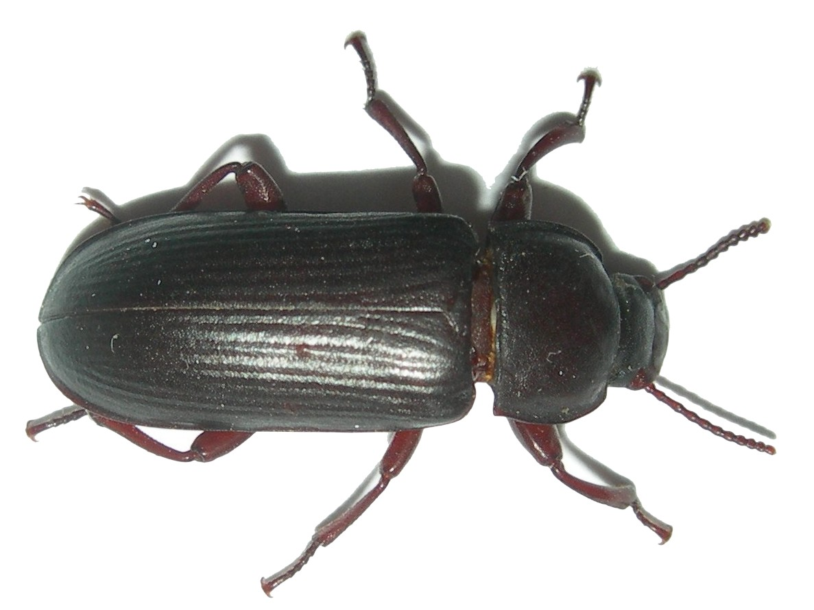 Mealworm beetle (Tenebrio molitor), Seynod, France.